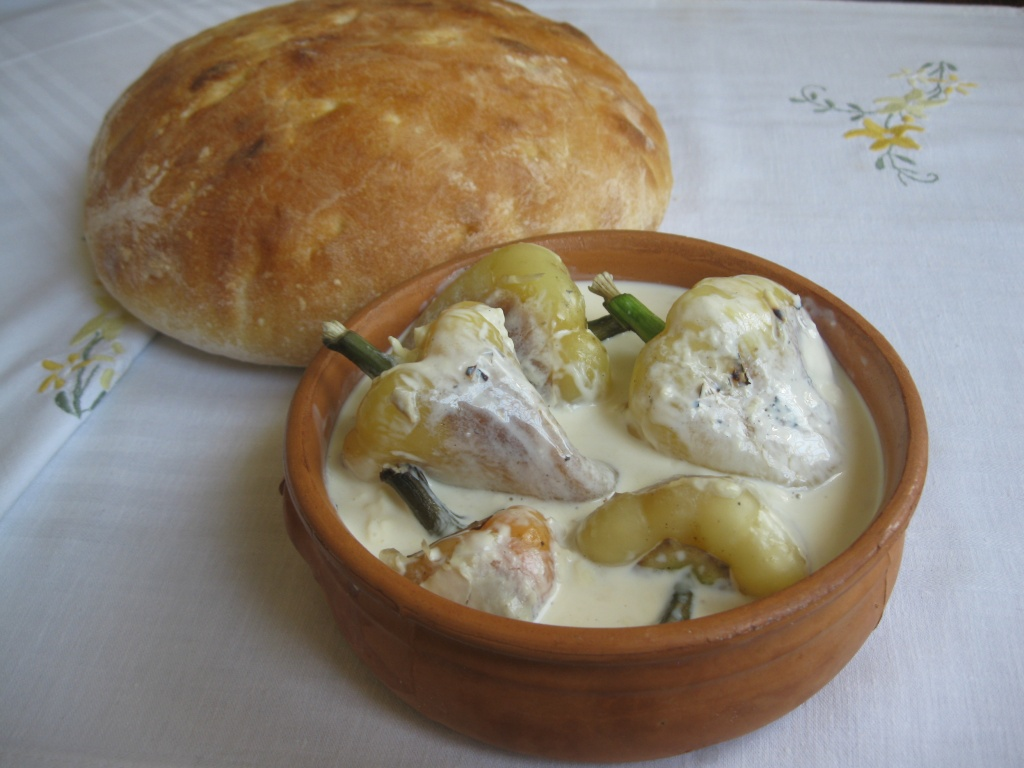 A delicious recipe of an Albanian cuisine